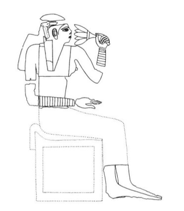 Giza Necropolis. Tomb of Hetepheres. Gold figure of the queen. Gold leaves forming the queen seated on a throne and smelling lotus flower.